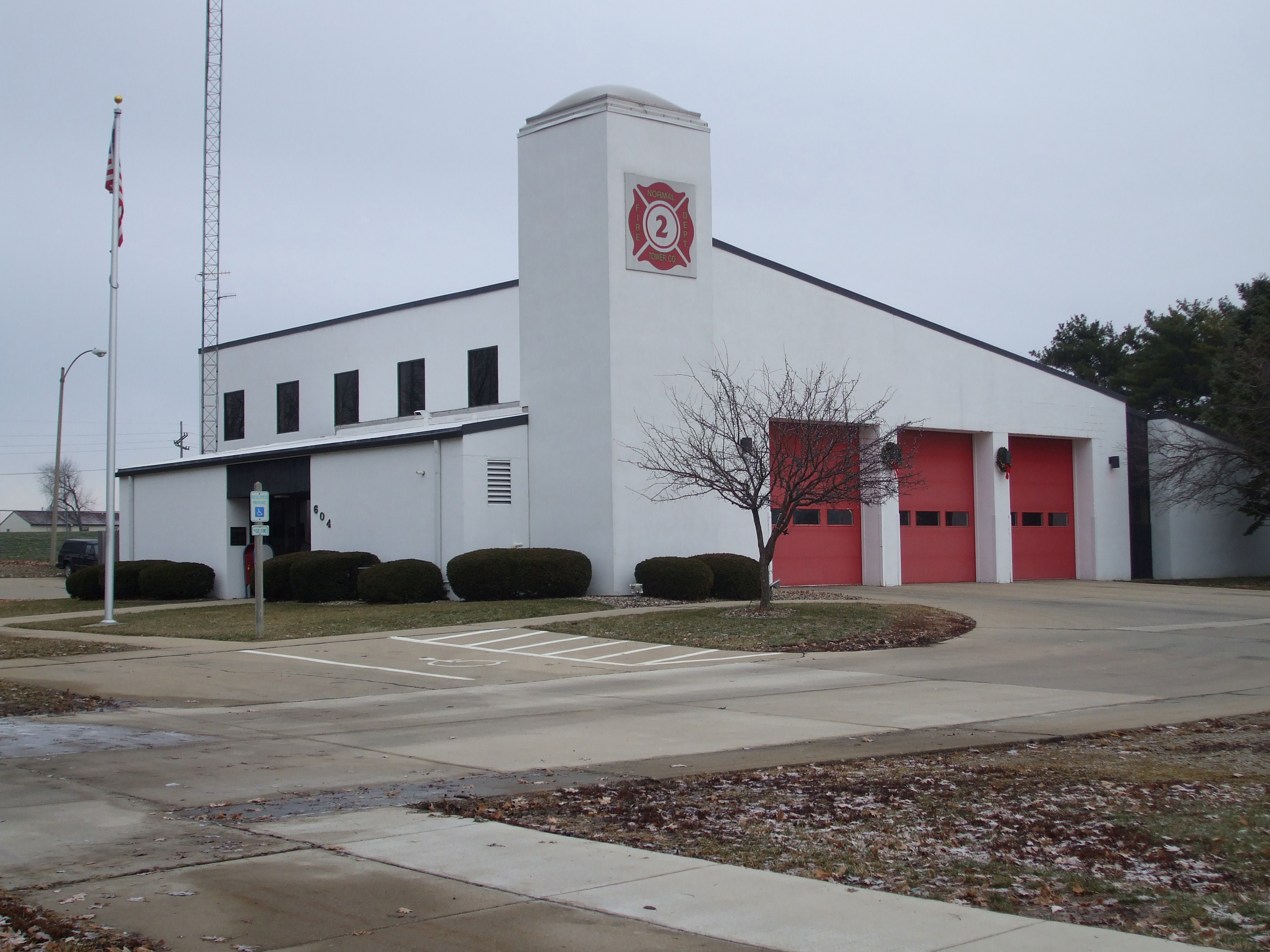 Normal Fire Department Station 2 at 604 N. Adelaide St., Normal IL (Mike Matejka photo)